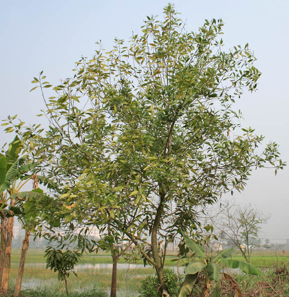 Black Wattle Acacia mangium in Kolkata, West Bengal, India.